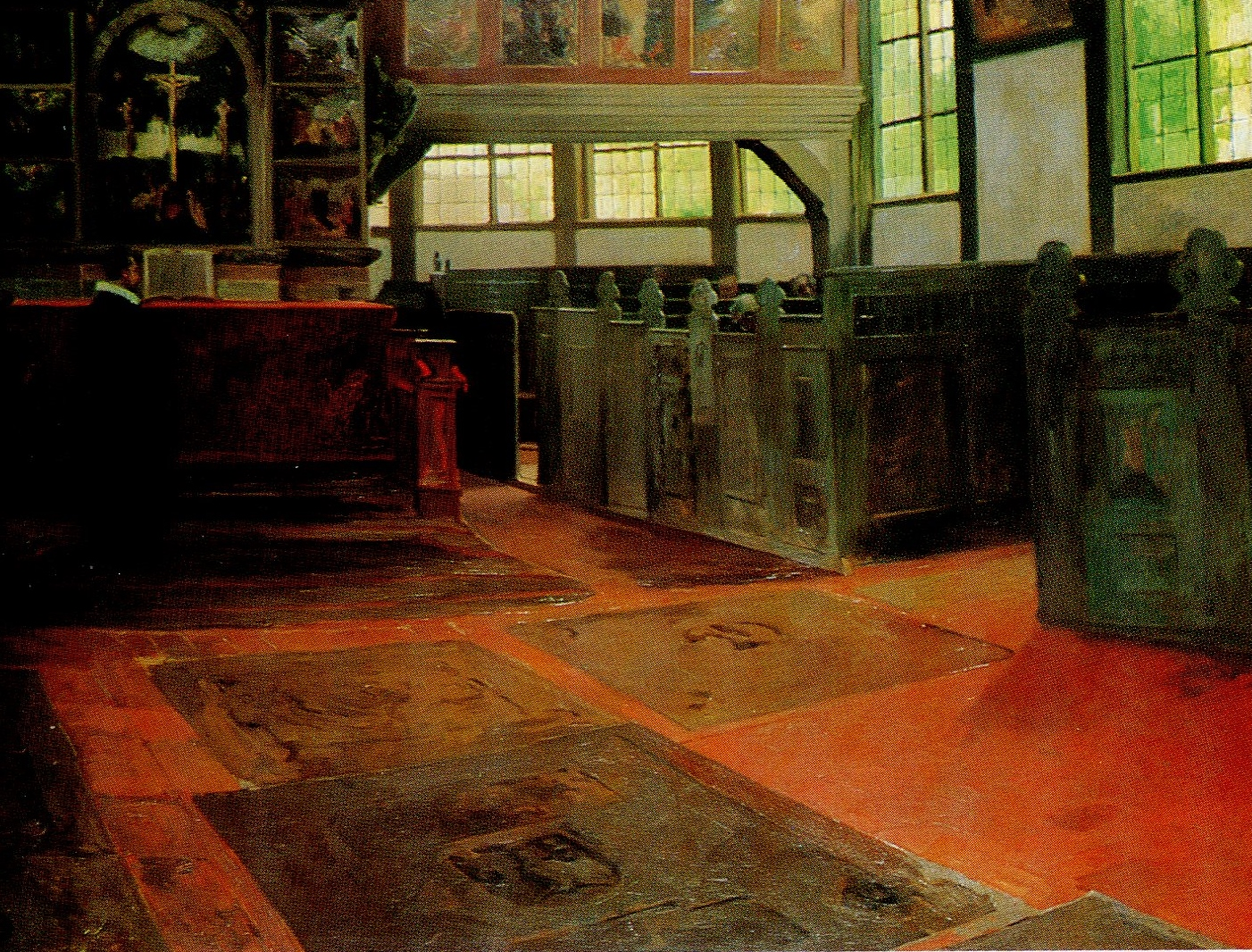 Church in Allermöhe near Hamburg, painted by Alfred Mohrbutter